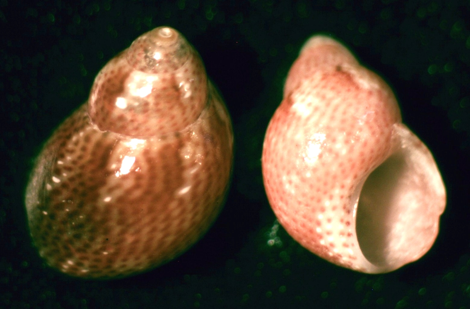 Eulithidium affine (C. B. Adams, 1850), a sea snail from the family Phasianellidae; Venezuela